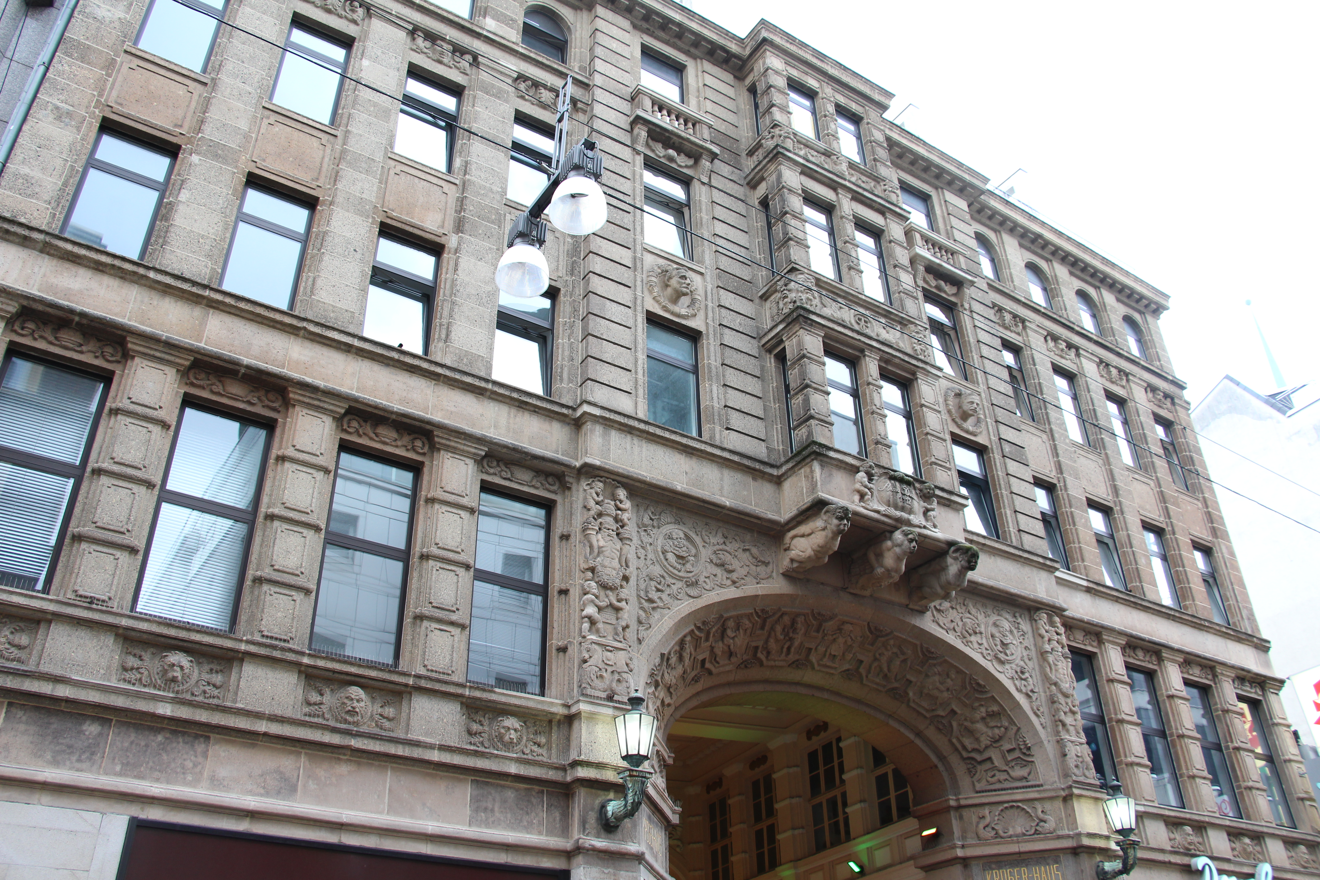 City. Westenhellweg Former office and commercial building of C. L. Krüger GmbH with Cabaret Jungmühle and the Krüger-Passage. Arch. Hugo Steinbach 1911-12.